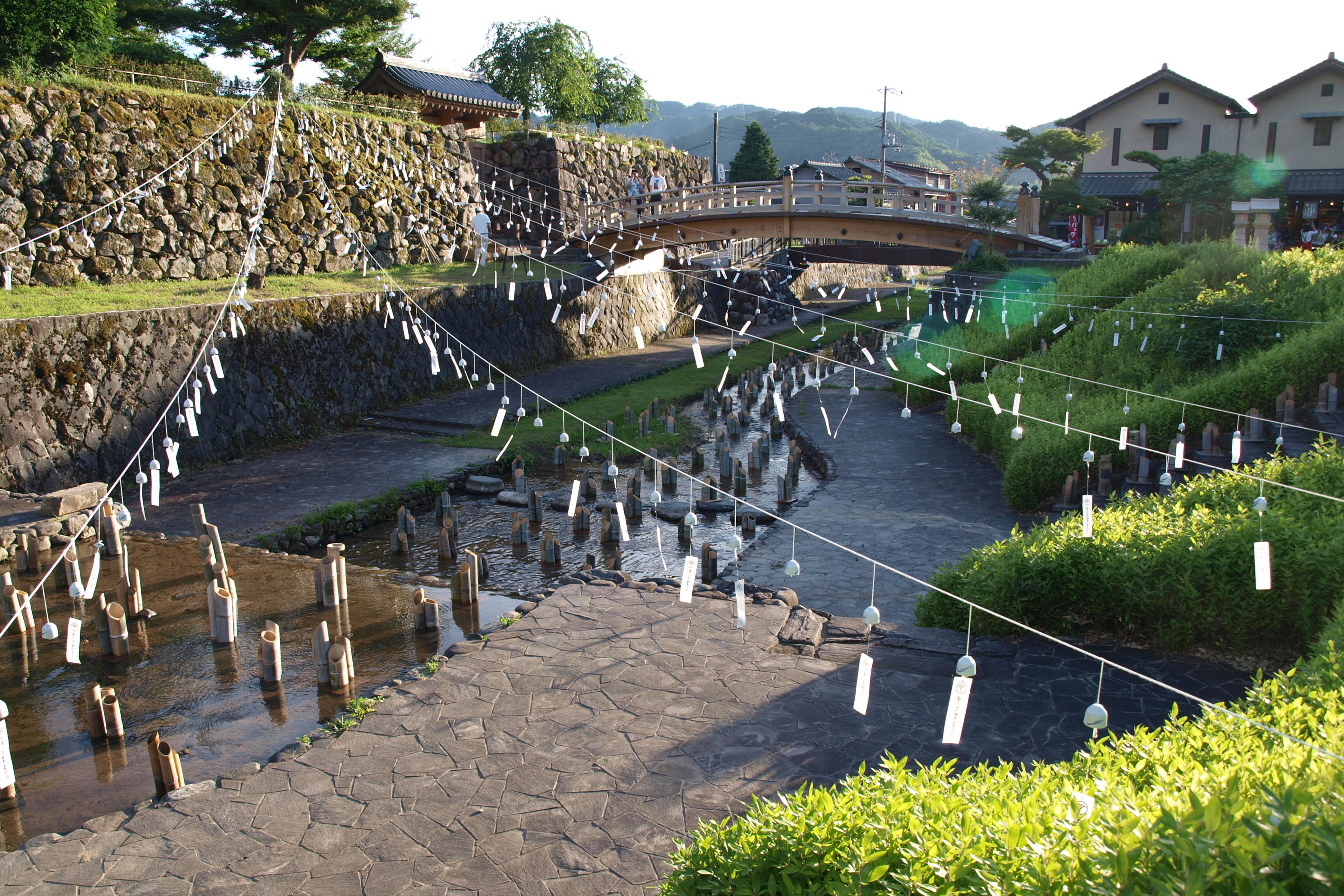 Izushi Han Summer Festival in Toyooka, Hyogo Prefecture, Japan.